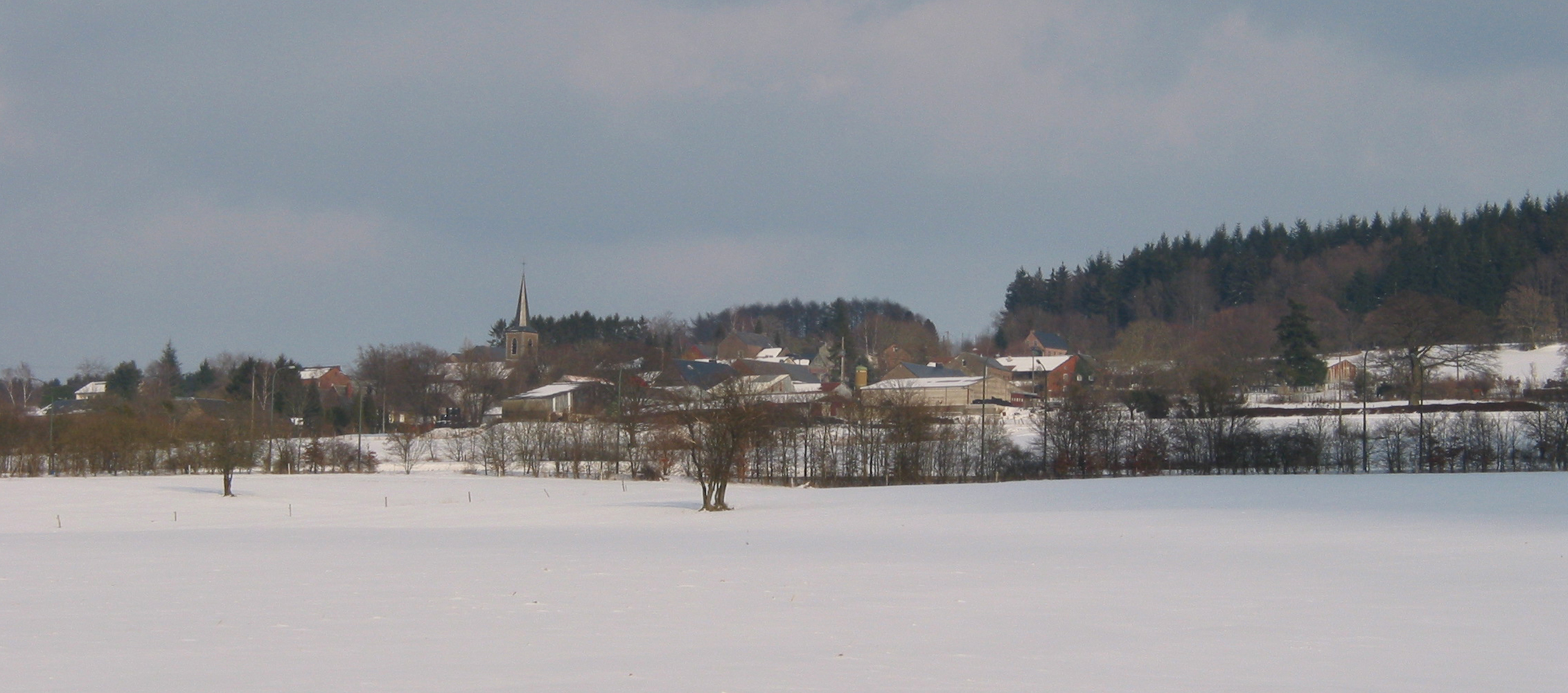 Charneux (Harsin) (Belgium), the Charneux hamlet.